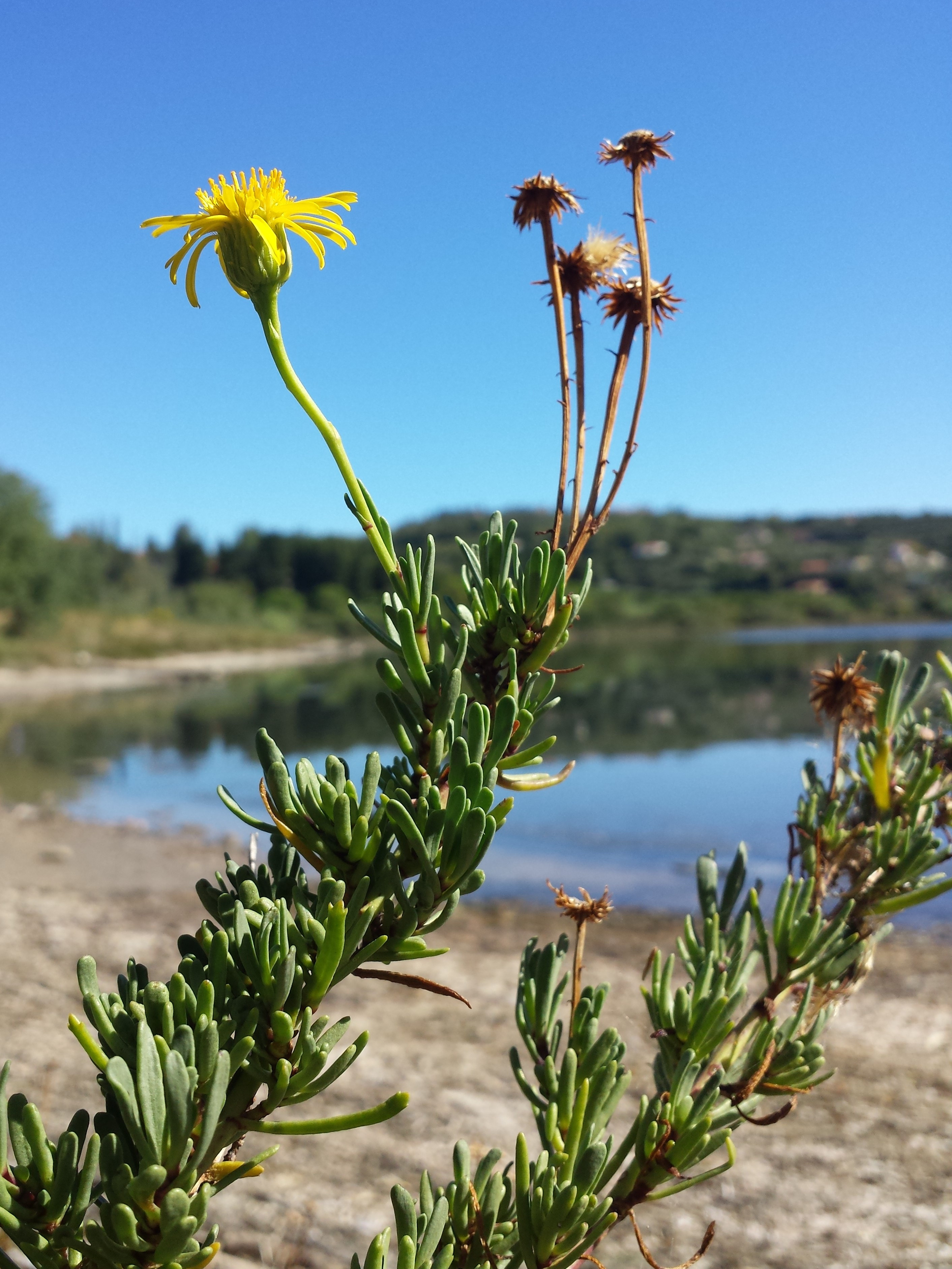 Habitus Taxonym: Inula crithmoides ss Rottensteiner: Exkursionsflora für Istrien ISBN 978-3-85328-067-6 Location: abandoned salt basin next to Strunjan, community Piran, Istria, Slovenia Habitat: shore of an abandoned salt basin